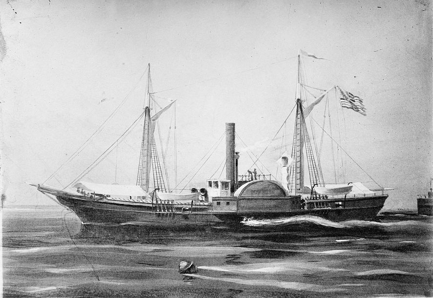 Title: U.S.S Water Witch. SHIP Abstract/medium: Harris & Ewing photograph collection Physical description: 1 negative